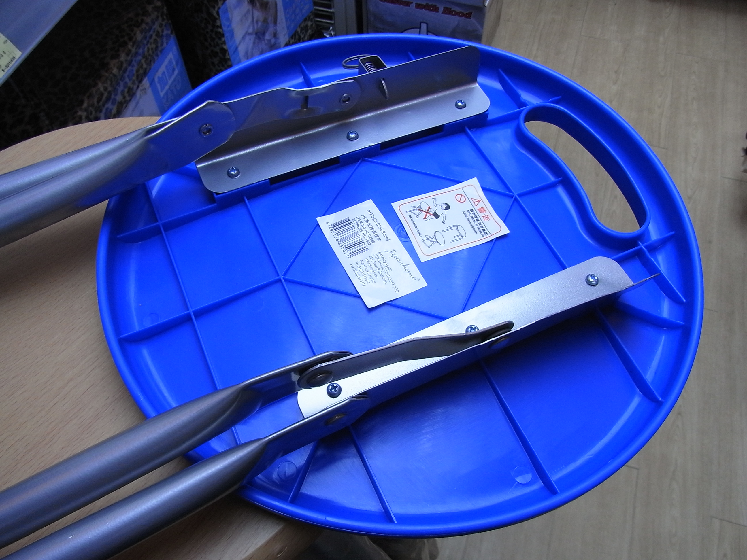 日本城 摺凳, Folding furniture, Japan Home Centre, Hong Kong